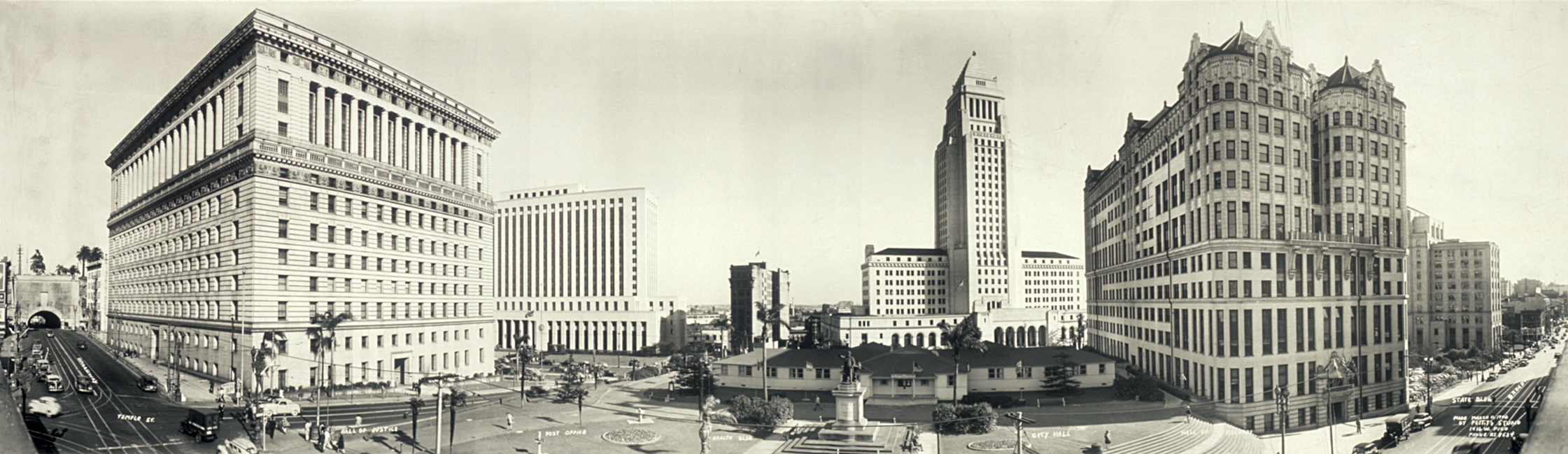 Skyline of Downtown Los Angeles, circa 1946. View to east of L.A. Civic Center, from northeastern Bunker Hill. The 2nd tall building from right (1st is courthouse) is the Los Angeles City Hall, restored (1990s) and still in use (2012). Low temporary WWII buildings in front of it. Temple Street is running to their left. On left is Broadway, with the Broadway Tunnel on extreme left, to Plaza area & northward.